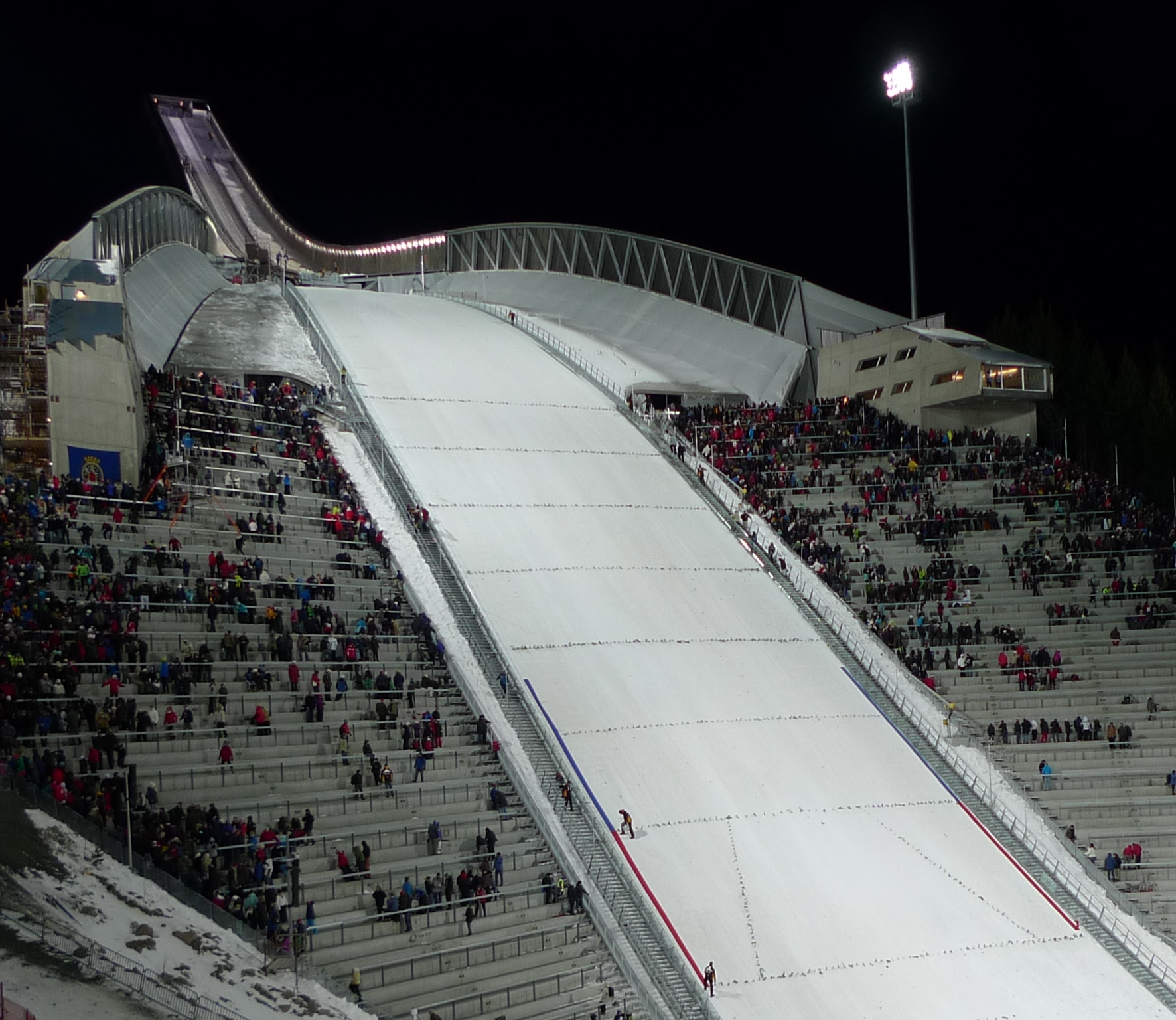 The new Holmenkollen ski jump on inauguration day, March 3 2010.